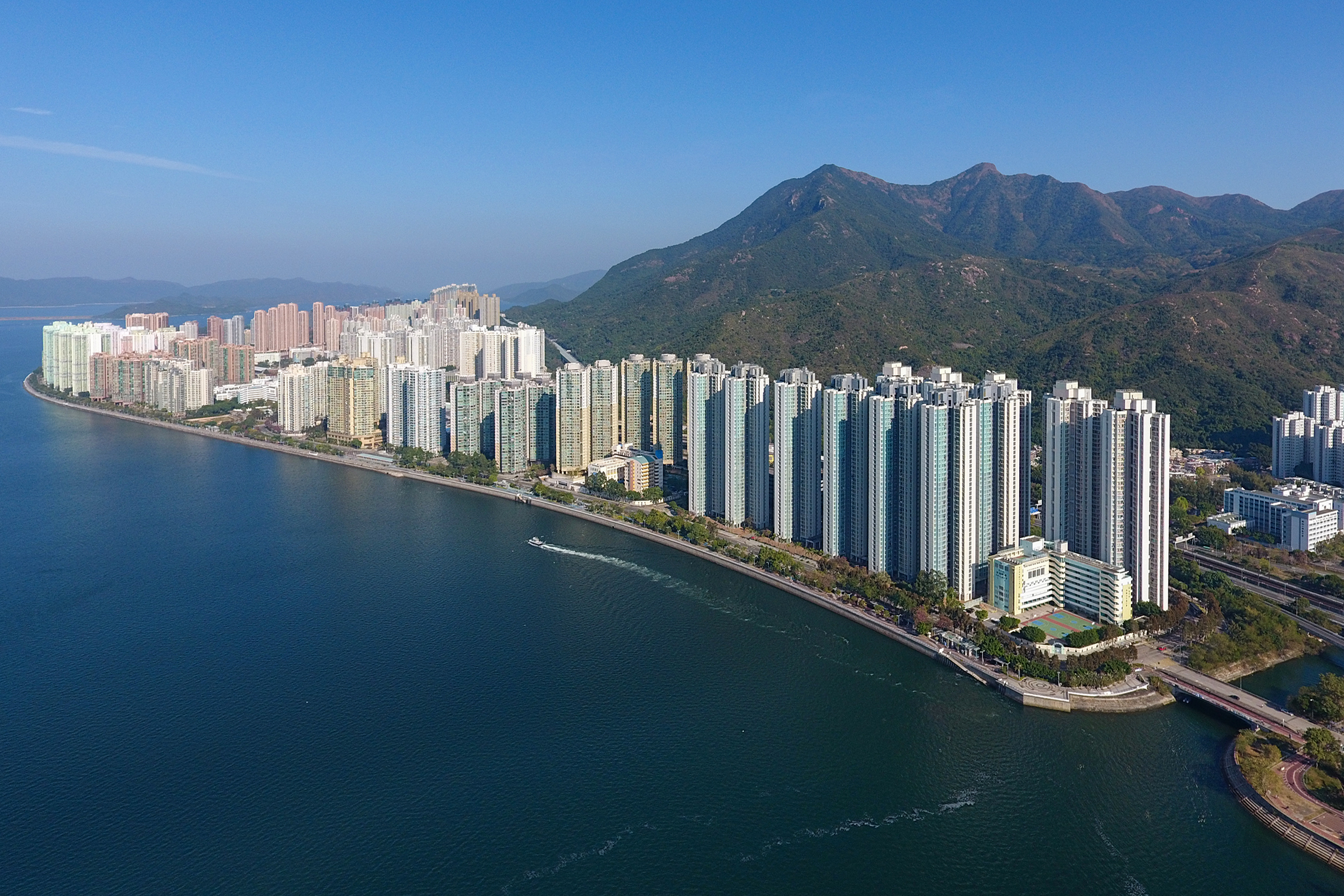 Ma On Shan Aerial View